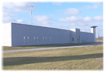 United States Penitentiary, Terre Haute